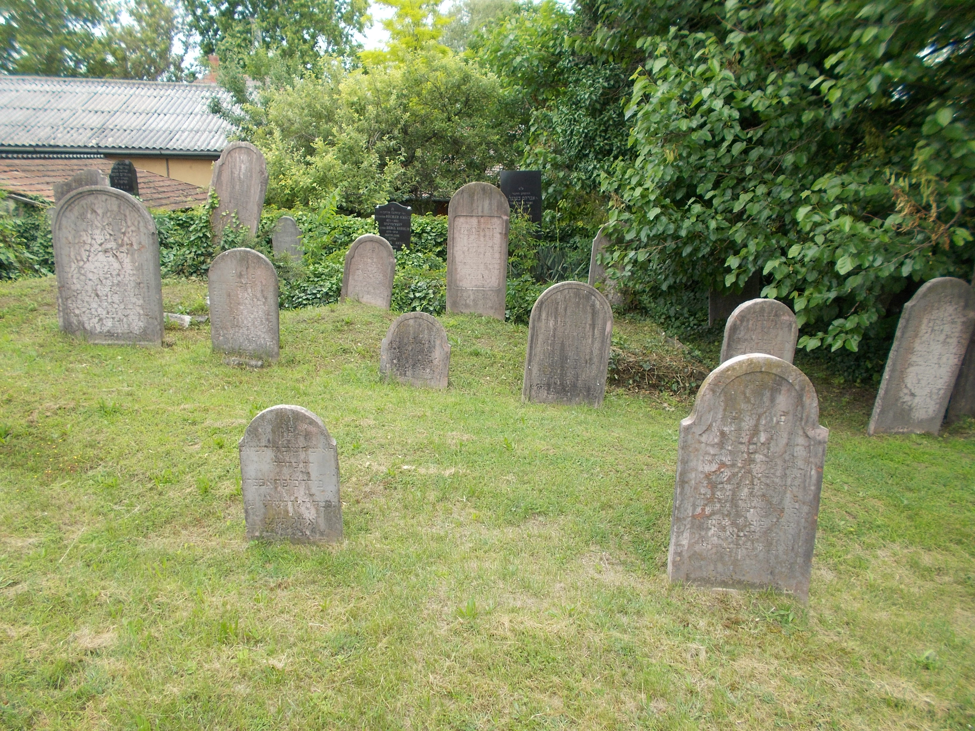 Jewish Cemetery. - Gólya utca, Lomb utca off, Alsóváros, Kiskunhalas, Bács-Kiskun County, Hungary.